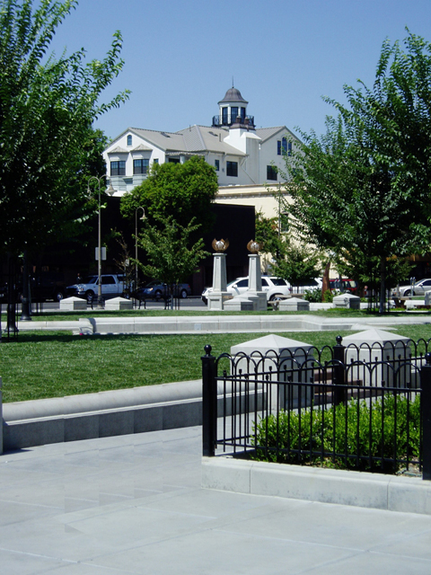 Downtown Chico, California